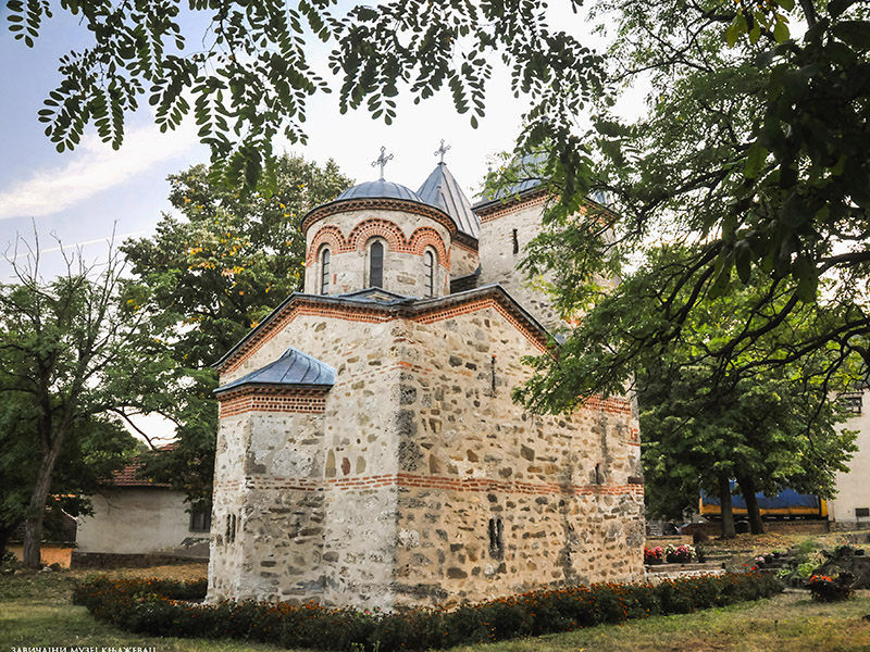 Church